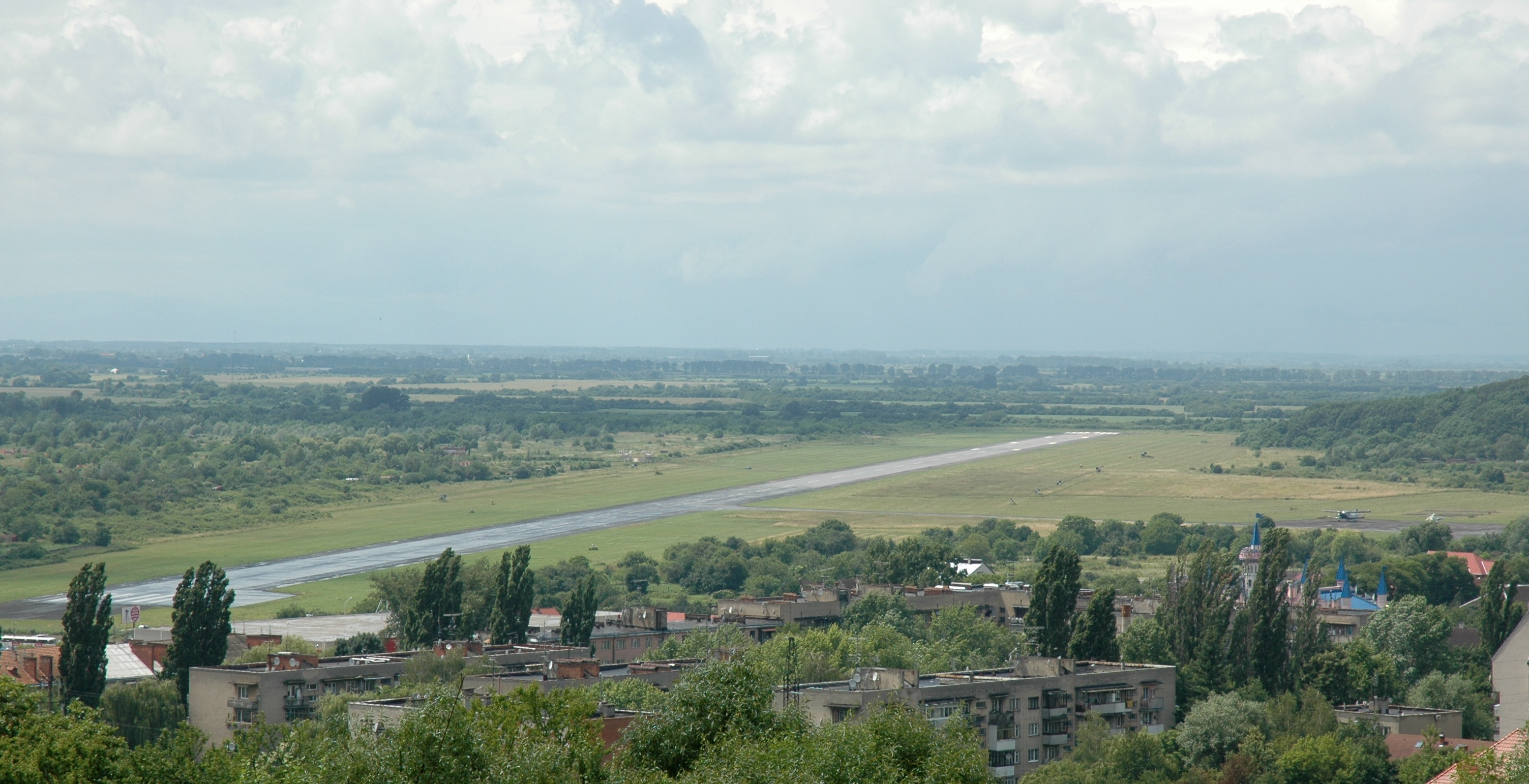 Panoramic view of Uzhhorod International Airport